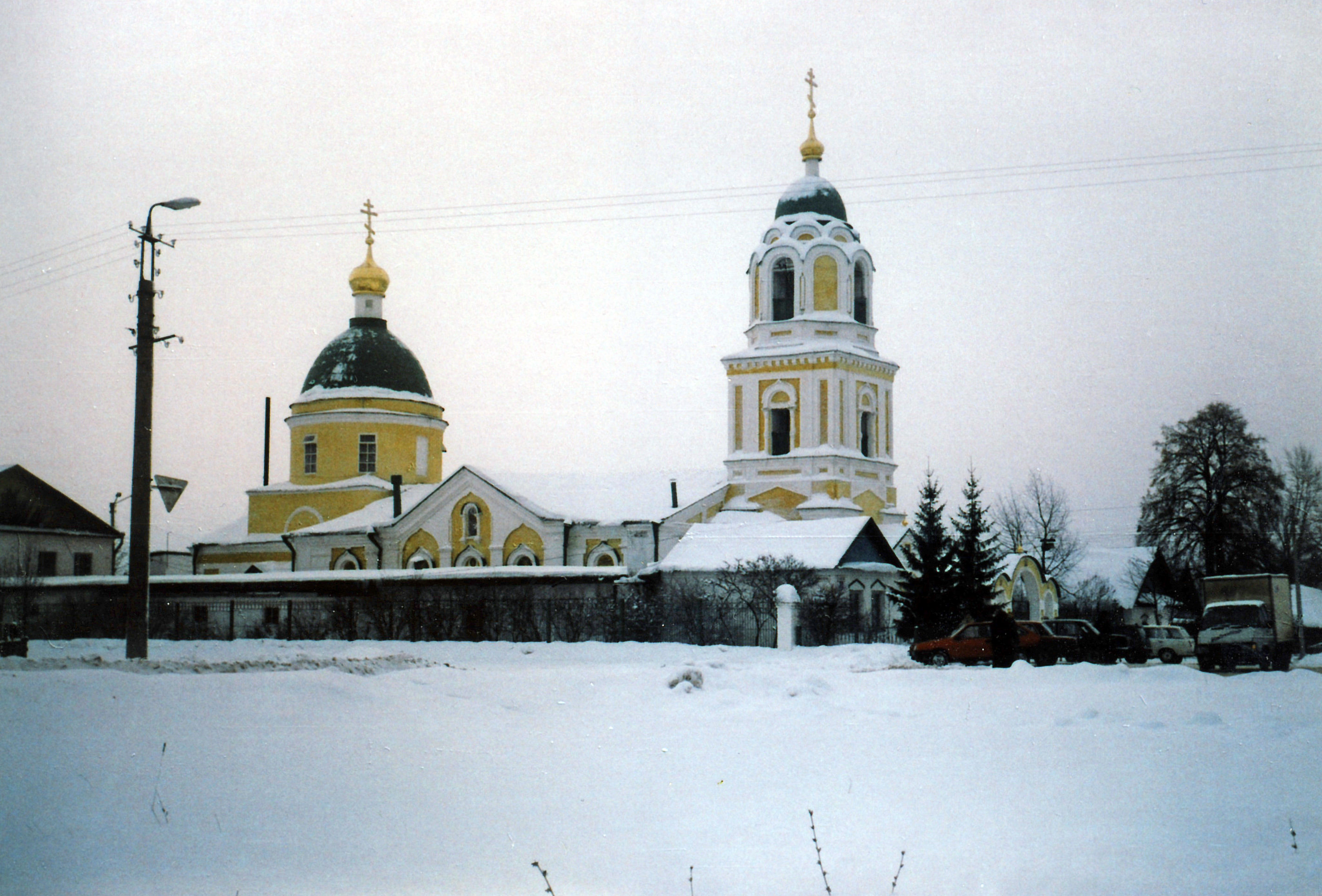 Yoshkar-Ola. Church of the Virgin's Nativity